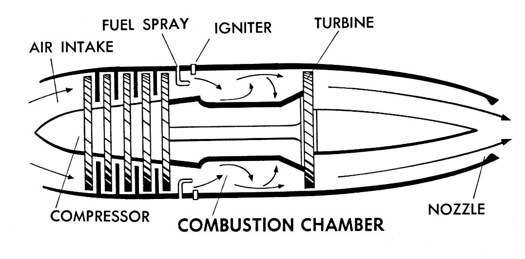 line art drawing of combustion chamber.